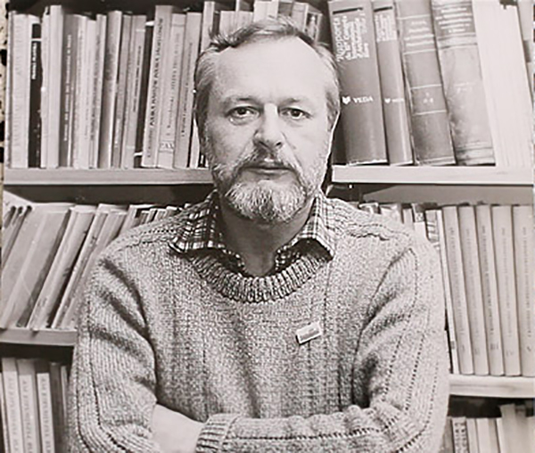 Tadeusz Malinowski in his office in Słupsk around 1990